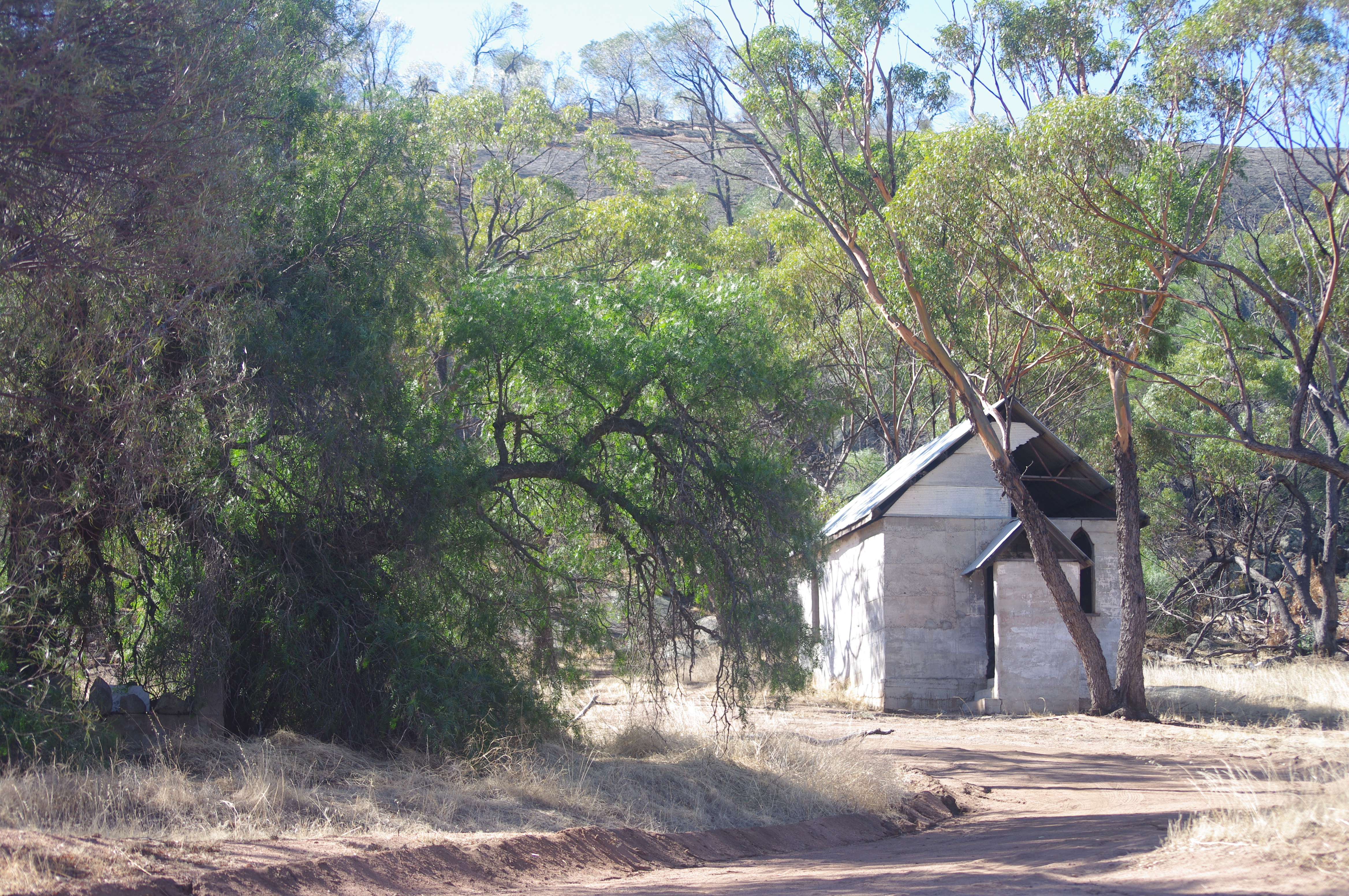 Old church and cemetery at the foot of Mt Stirling 35km NE of Quairading, Western Australia